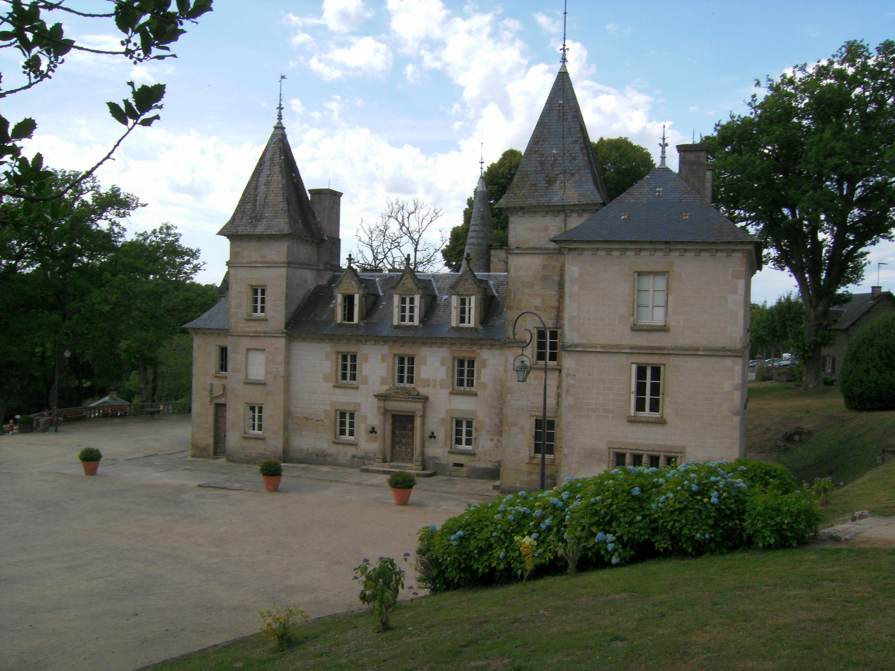 Chateau on Vassiviere Island